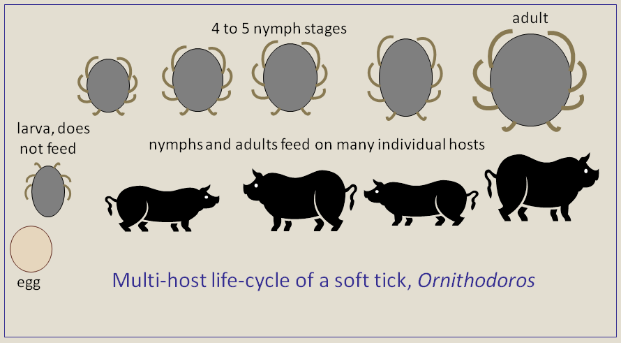 Diagram of the life-cycle of a multi-host tick such as a member of the Ornithodoros moubata group feeding repeatedly on pigs.